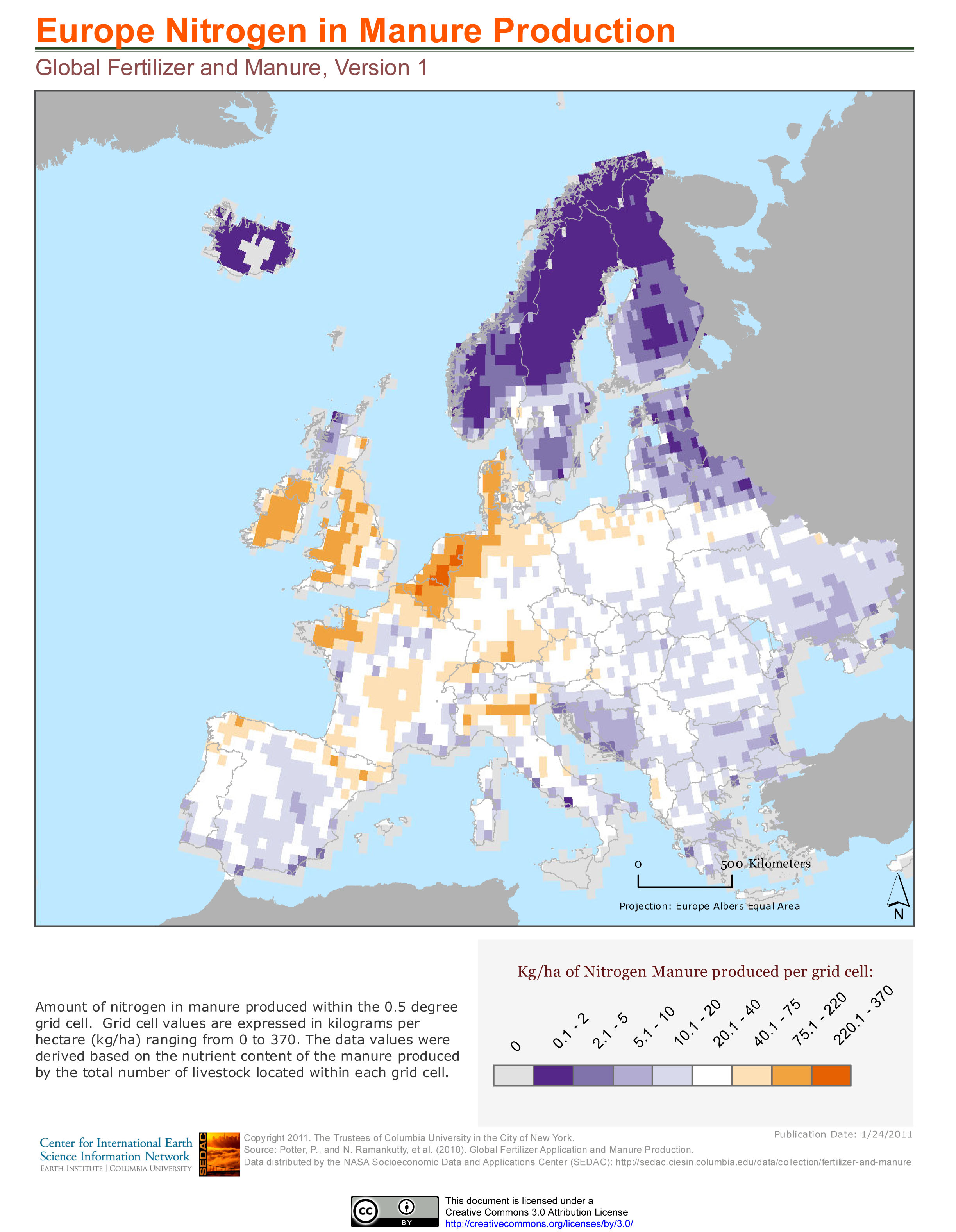 Amount of nitrogen in manure produced within the 0.5 degree grid cell. Grid cell values are expressed in kilograms per hectare (kg/ha) ranging from 0-370. The data values were derived based on the nutrient content of the manure produced by the total number of livestock located within each grid cell.